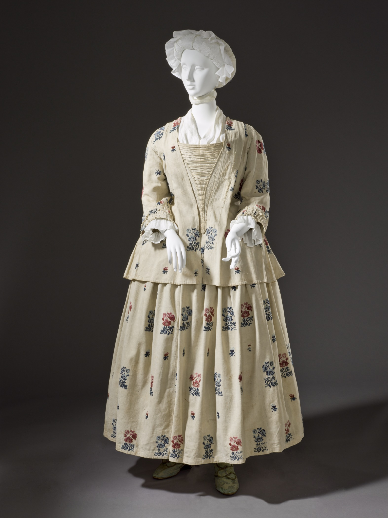 France or England, Textile- 1750-1775; reconstructed- 1770s Costumes; ensembles Linen warp and cotton weft plain weave (fustian) with wool supplementary weft patterning and linen plain weave lining Mrs. Alice F. Schott Bequest (M.67.8.74a-b) Costume and Textiles